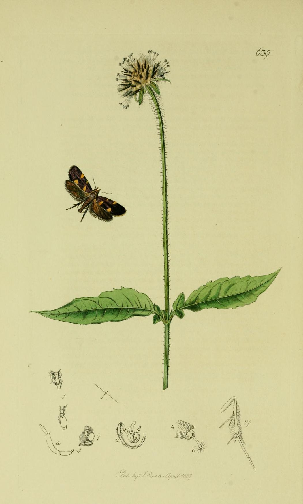 An illustration from British Entomology by John Curtis. Lepidoptera: Lampronia luzella (Four-spotted Purple Tinea).